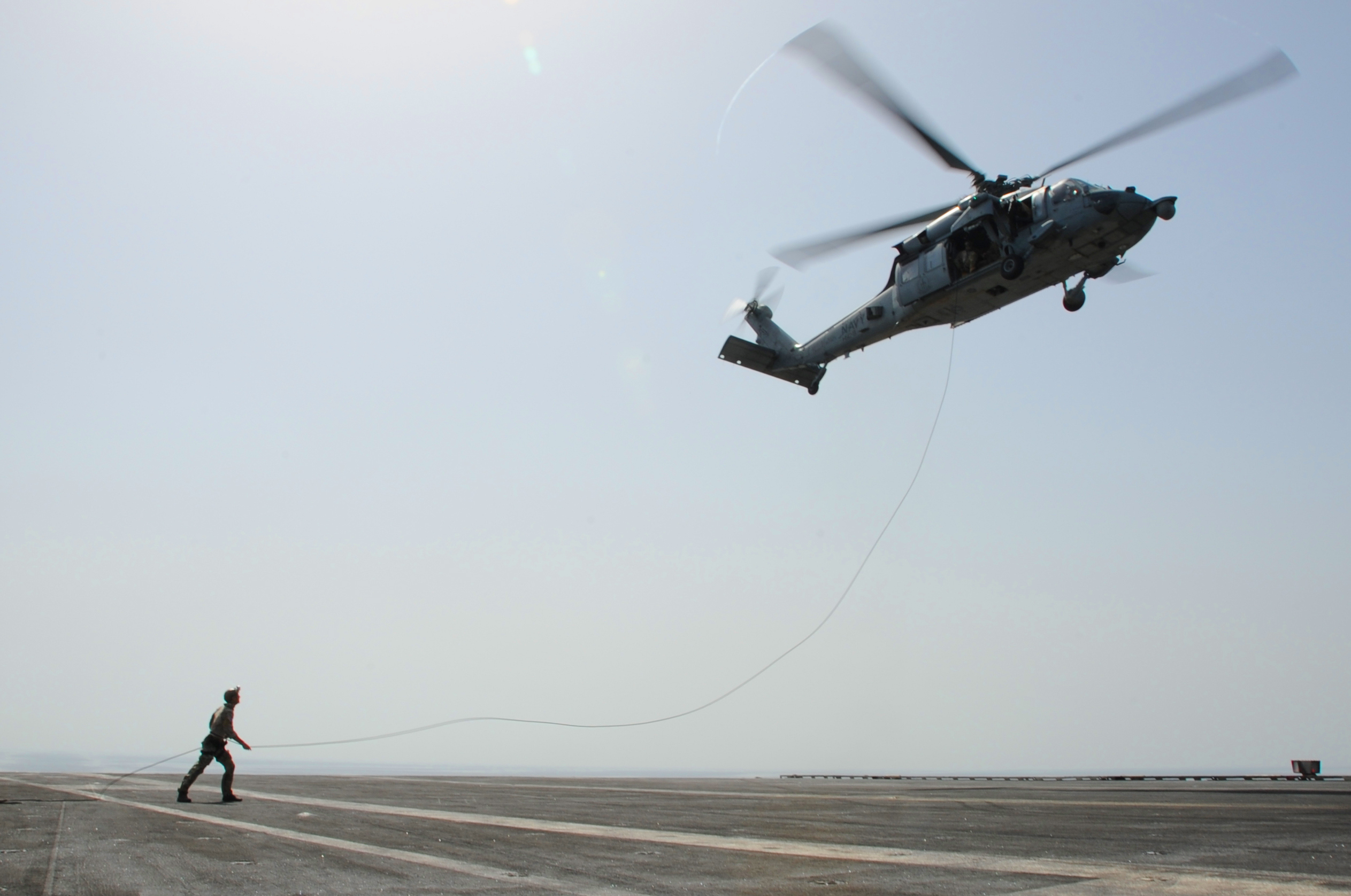 ARABIAN GULF (Sept. 27, 2014) Sailors from Explosive Ordnance Disposal Mobile Unit (EODMU) 12 conduct fast-roping maneuvers from an MH-60S Sea Hawk, attached to the “Tridents” of Helicopter Sea Combat Squadron (HSC) 9, on the flight deck of the aircraft carrier USS George H.W. Bush (CVN 77). George H.W. Bush is supporting maritime security operations and theater security cooperation efforts in the U.S. 5th Fleet area of responsibility. (U.S. Navy photo by Mass Communication Specialist 3rd Class Lorelei Vander Griend/Released)